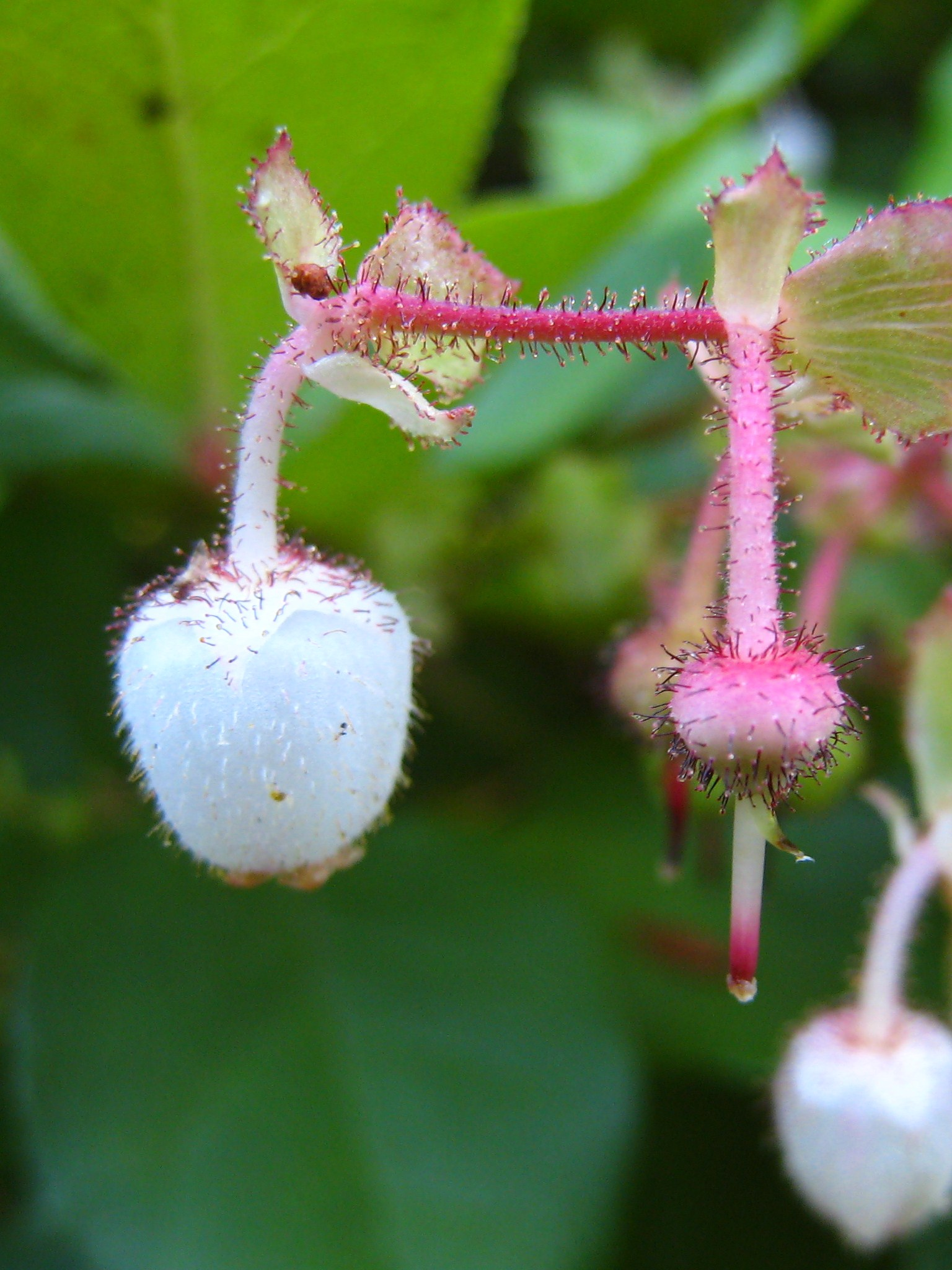 White "berries" of the salal, Gaultheria shallon, photographed on Orcas Island, WA, USA.